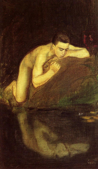 Narcissos is an old painting from finnish artist Magnus Enckel 1879-1925.